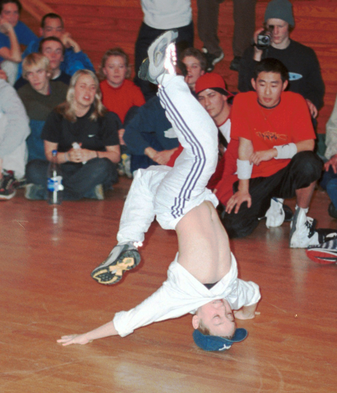 A hollowback made by Bboy Tiny, Stumbling Moves & PCC. Photo from 1 vs. 1 jam in Oslo.